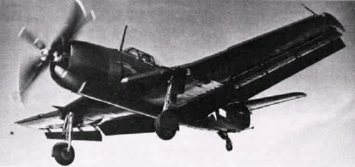 The Curtiss XBTC-2 "Model B" landing showing the Duplex flaps. The "Model B" featured a full span Duplex flap wing with a straight trailing edge and a swept-back leading edge. It also had a 3,000 hp Pratt & Whitney XR-4360-8A equipped with contrarotating propellers.